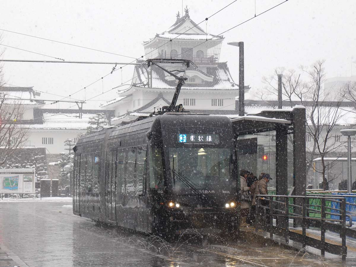 Toyama City Tram Line and Toyama castle at Kokusai-kaigijyomae tram stop.